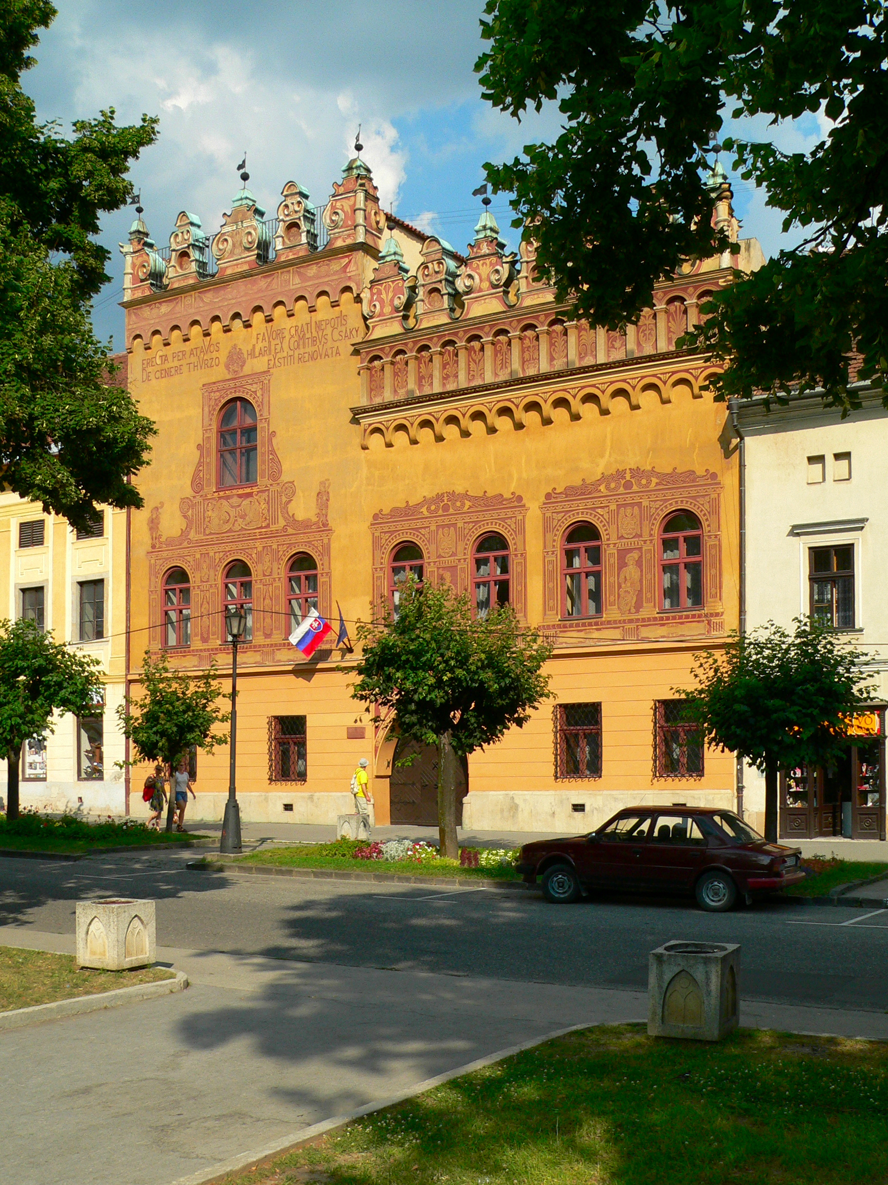 Renaissance Turzon's House in Levoca, Slovakia